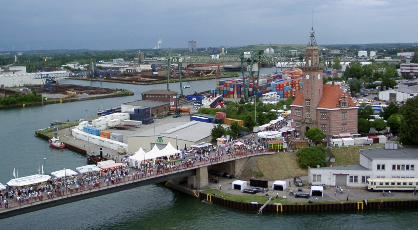 Harbor of Dortmund with old port authority